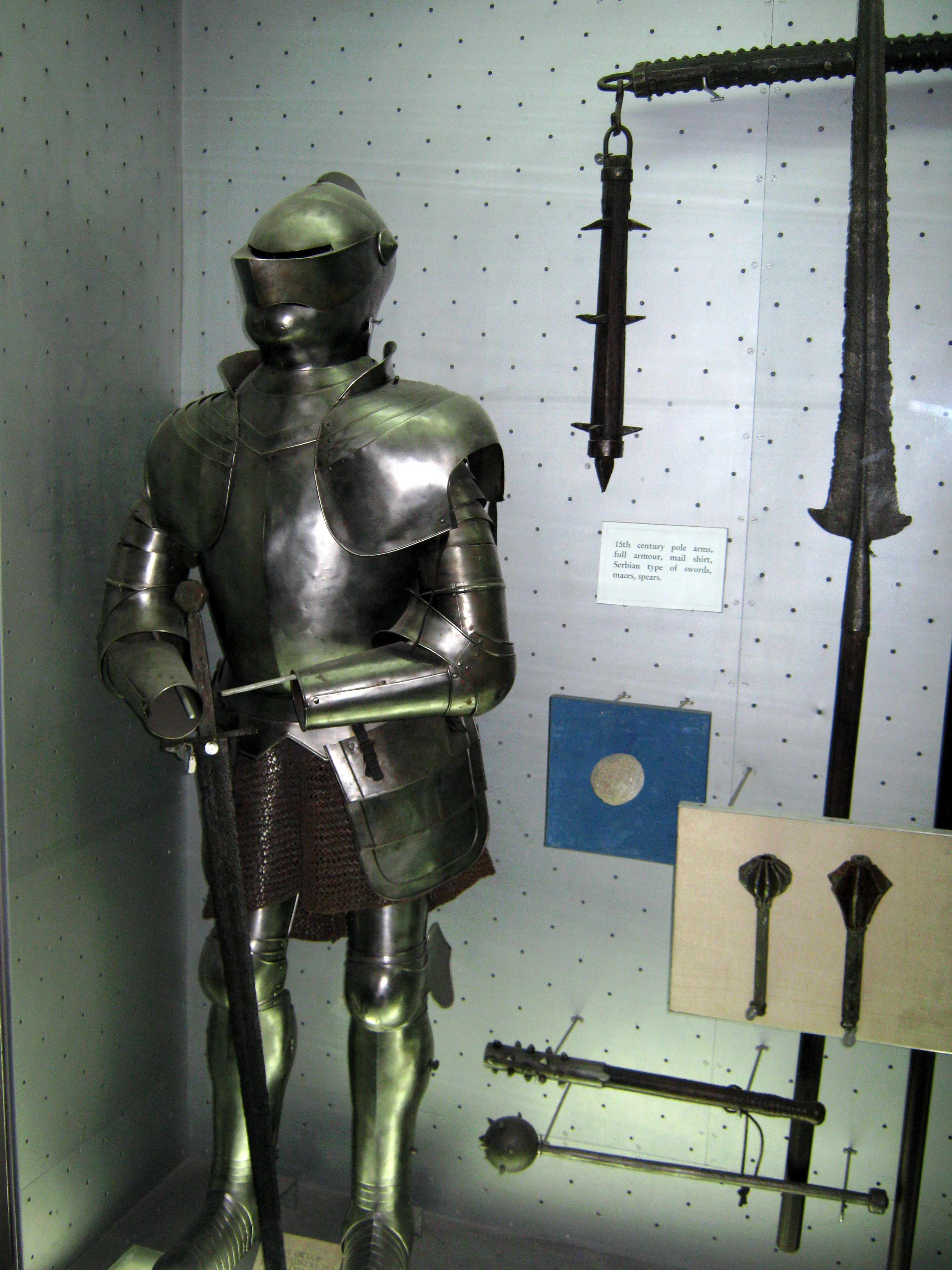 Armor used by Serbian knights in early 15th century. Photo taken in:Military museum Belgrade